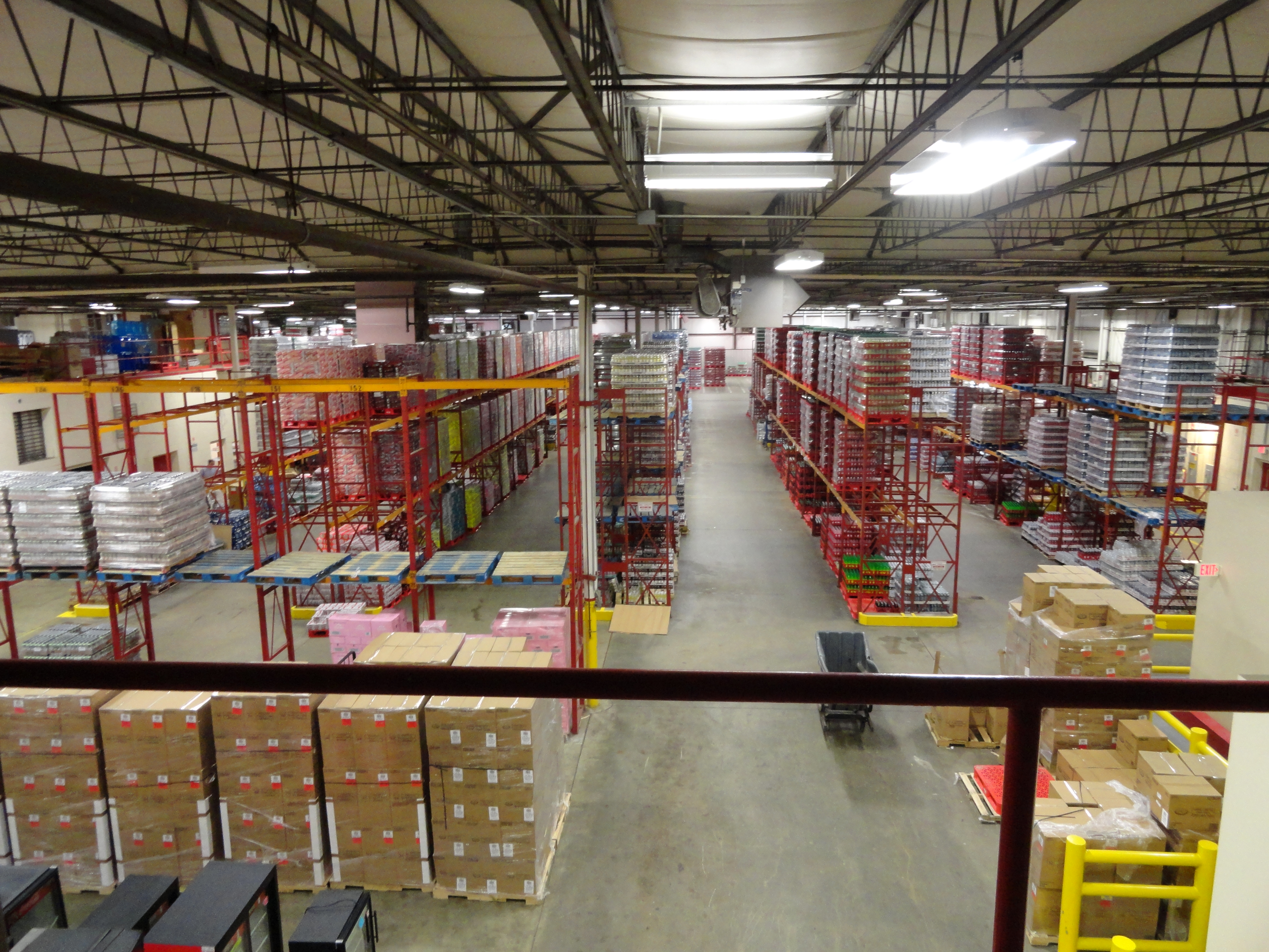 A view of the warehouse at Coca-Cola Bottling Company of Cape Cod from the mezanine.